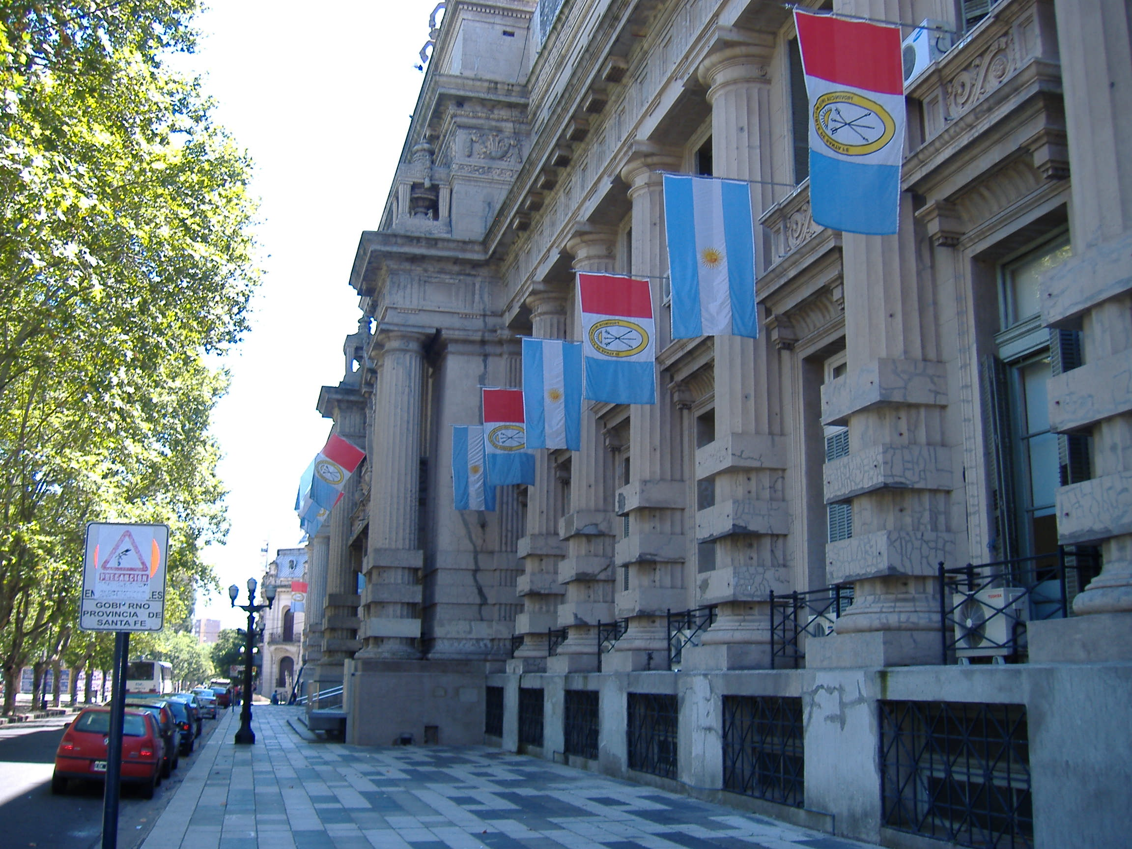 The local seat of the government of Santa Fe Province, Argentina, in the city of Rosario (the largest in the province, located in the south region). The main seat of government is at the capital, Santa Fe. This building was previously the headquarters of the police. Nowadays it is shared by provincial offices and houses an inner memorial square dedicated to peace and to desaparecidos, victims of forced disappearance during the last military dictatorship (1976–1983), who were detained there. In July 10 th, 2006 into this building was re-inaugurated the Provincial Museum of Natural Sciences. The old building of this museum (located 150 meters from de new location) was destroyed by fire in 2003 This picture was taken by Pablo D. Flores on 7 March 2006.